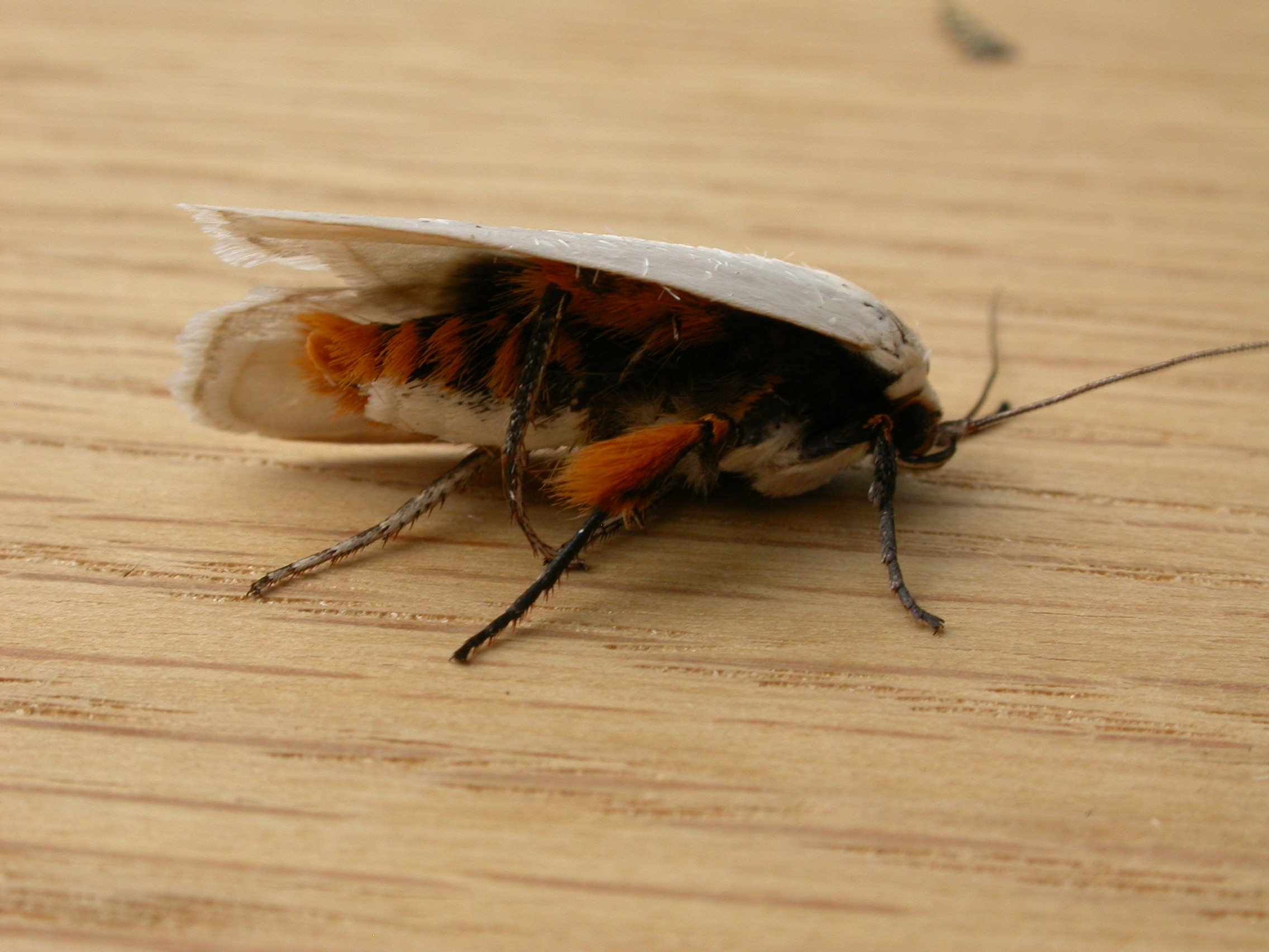 Maroga melanostigma